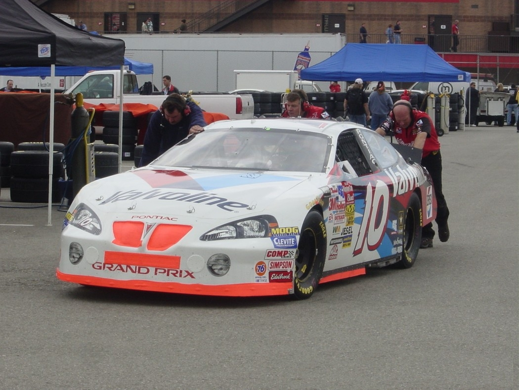 Johnny Benson heading back to the garage during practice.